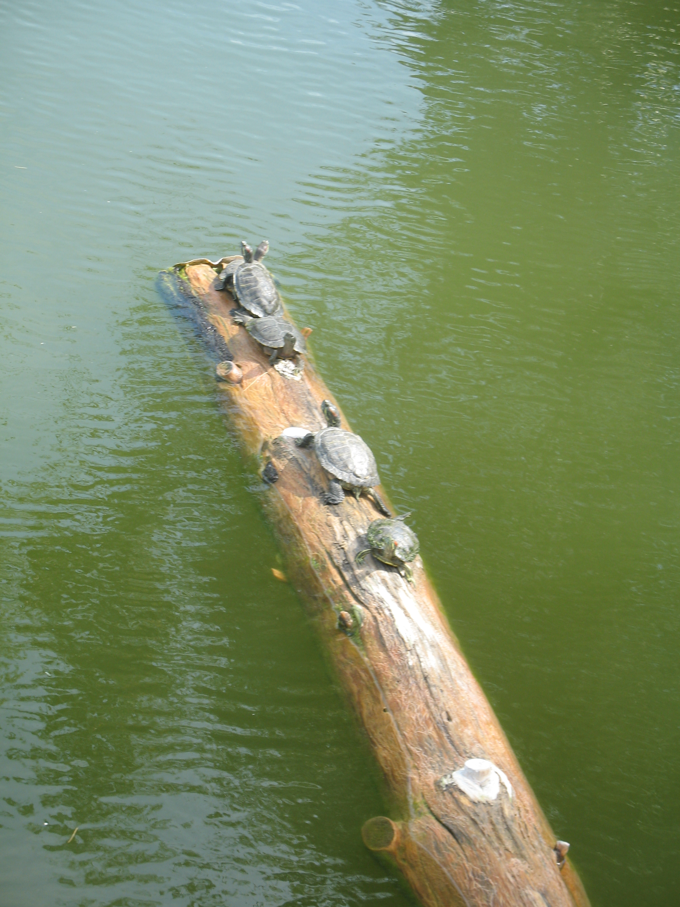 Turtles at the Phoenix Zoo